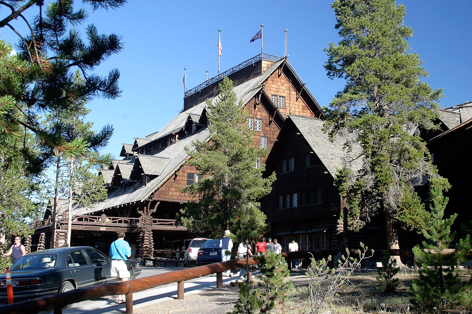 Old Faithful Inn